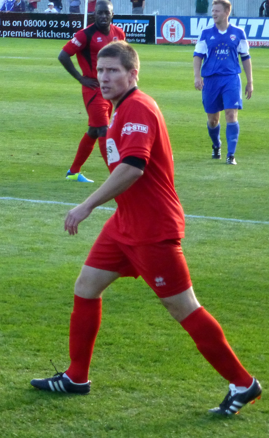 David Staff, player manager of Stamford AFC in September 2013.